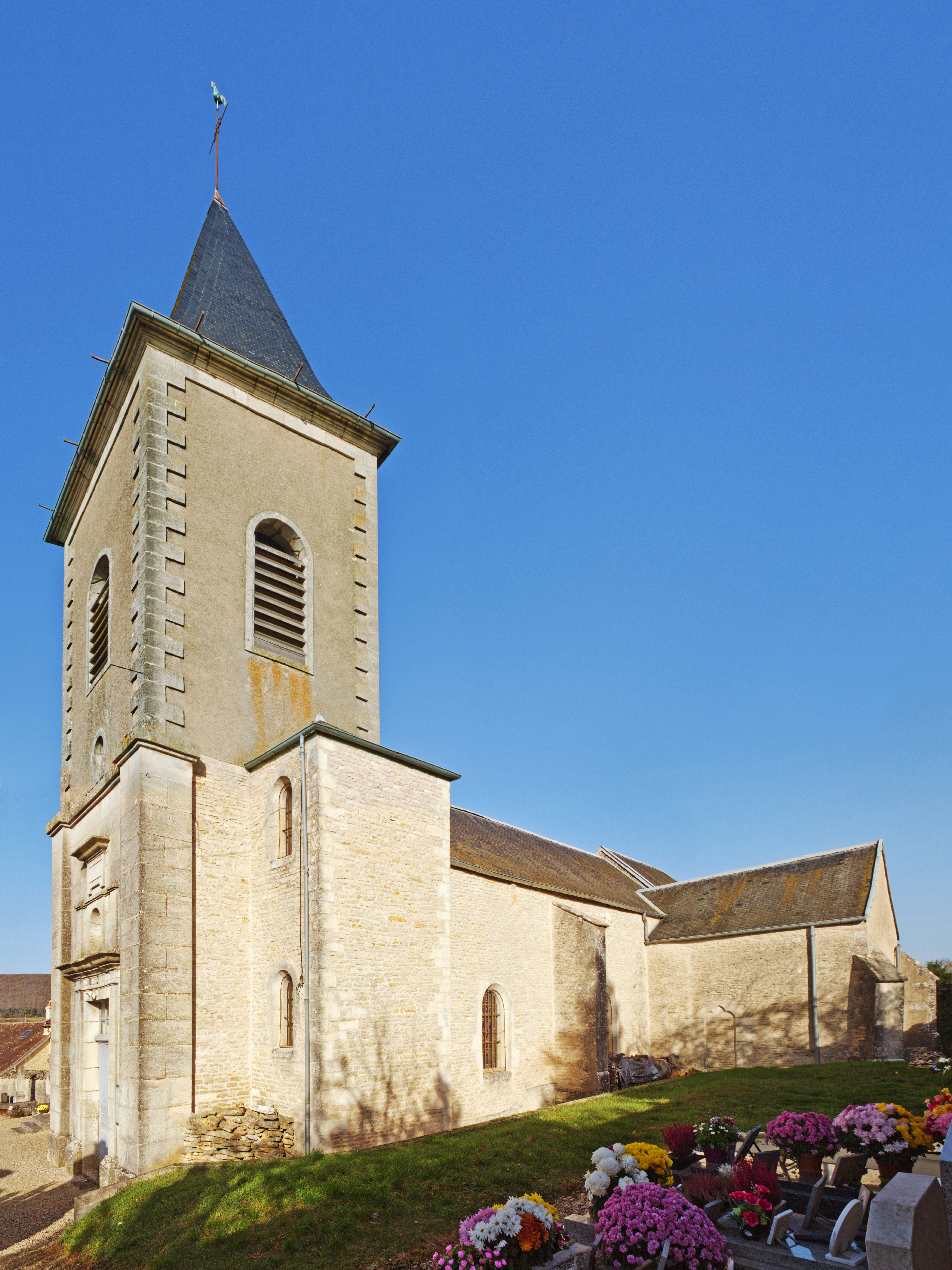 Church of the Assumption in Villecomte